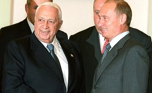 President Putin (right) with Israeli Prime Minister Ariel Sharon (left)